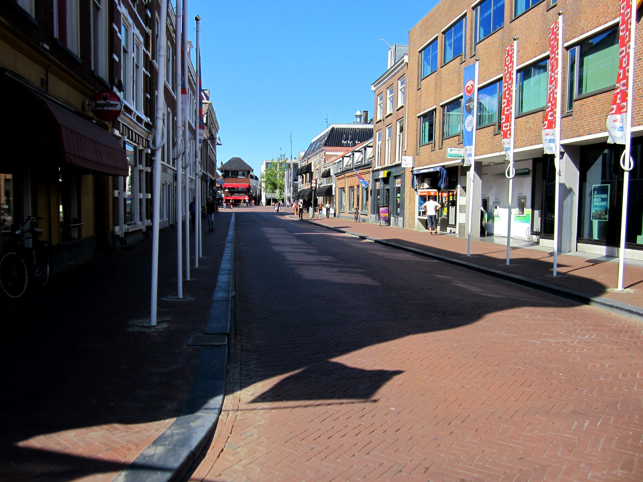 Prins Hendrikstraat (Frisian: Prins Hindrikstrjitte), a street in Leeuwarden/Ljouwert, Friesland, the Netherlands.